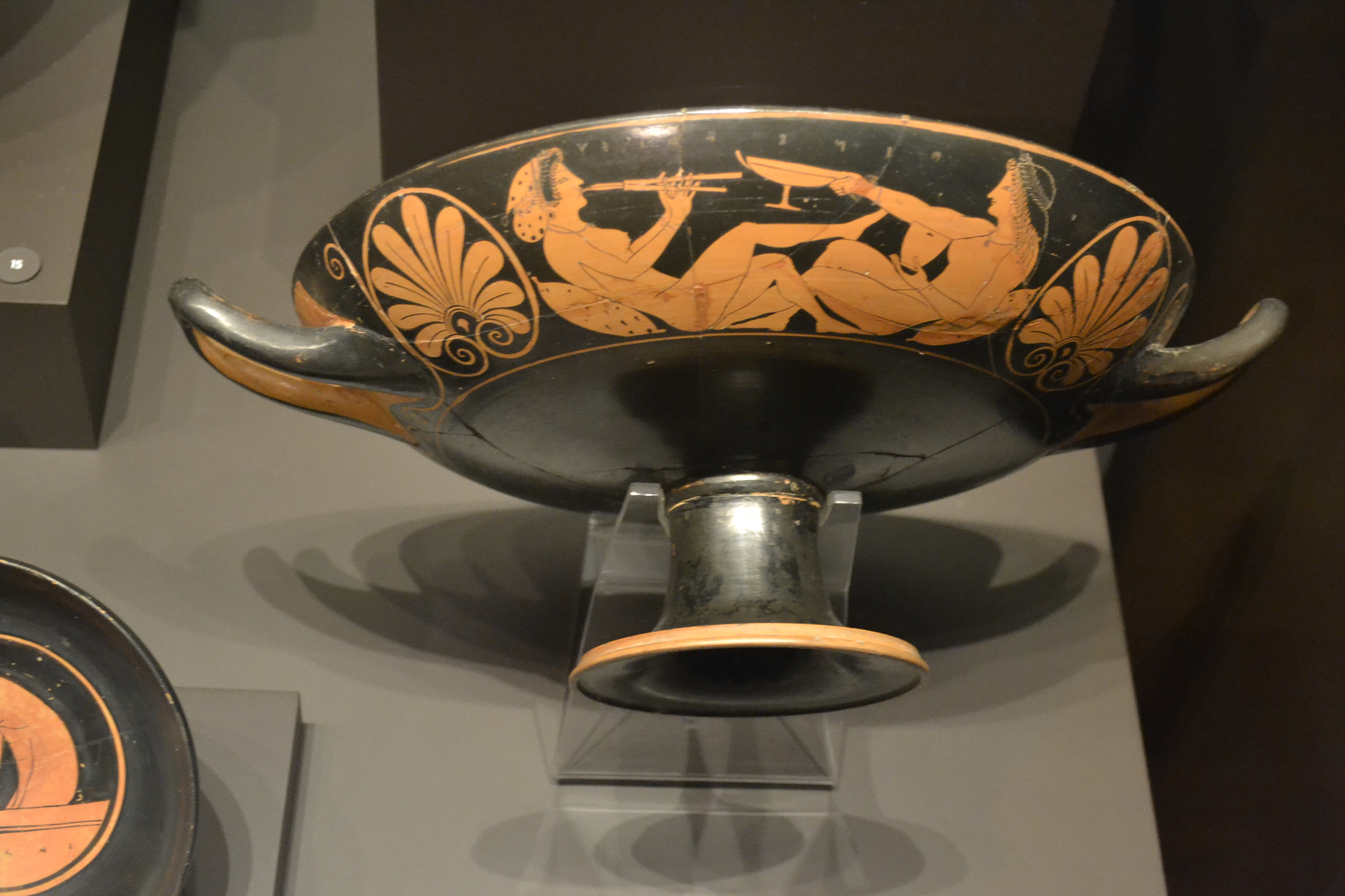 Kylix of the Symposium of the Hetairai by Oltos vase painter. Attica. 510 BC. National Archaeological Museum of Spain (MAN).